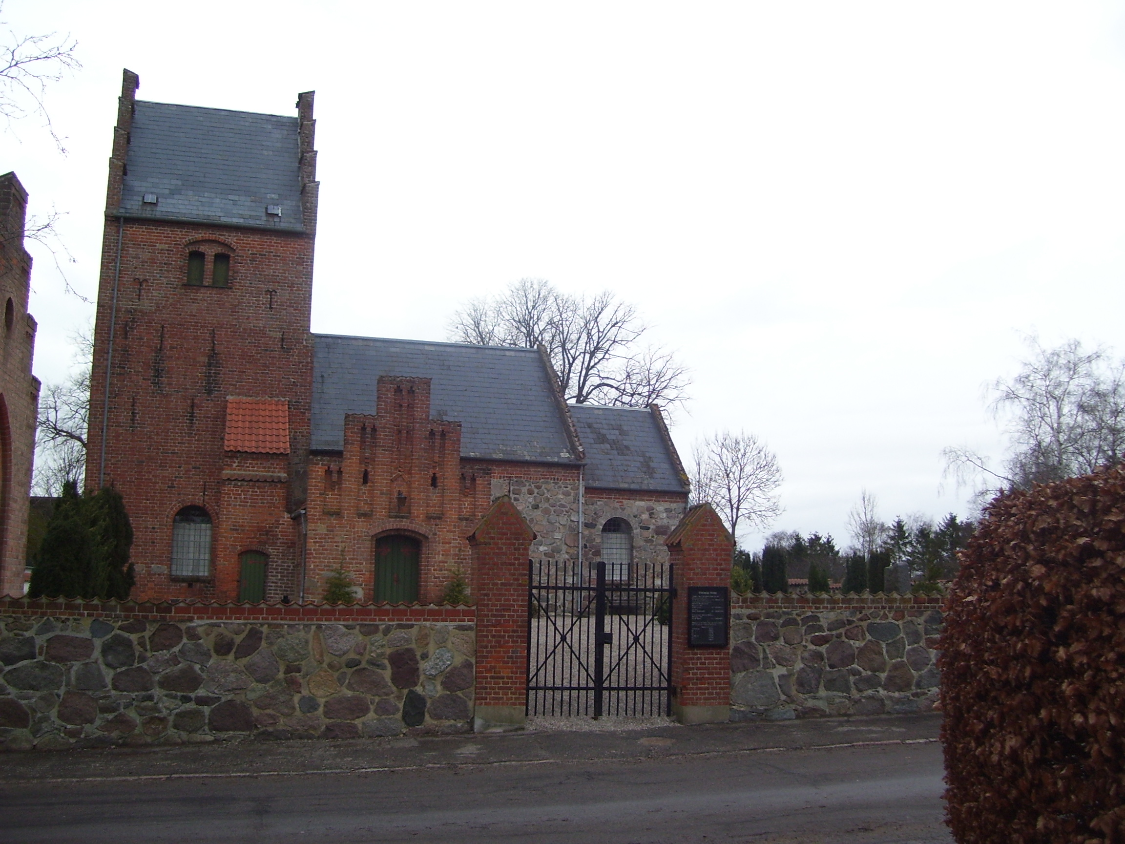 Church of Kirke Flinterup